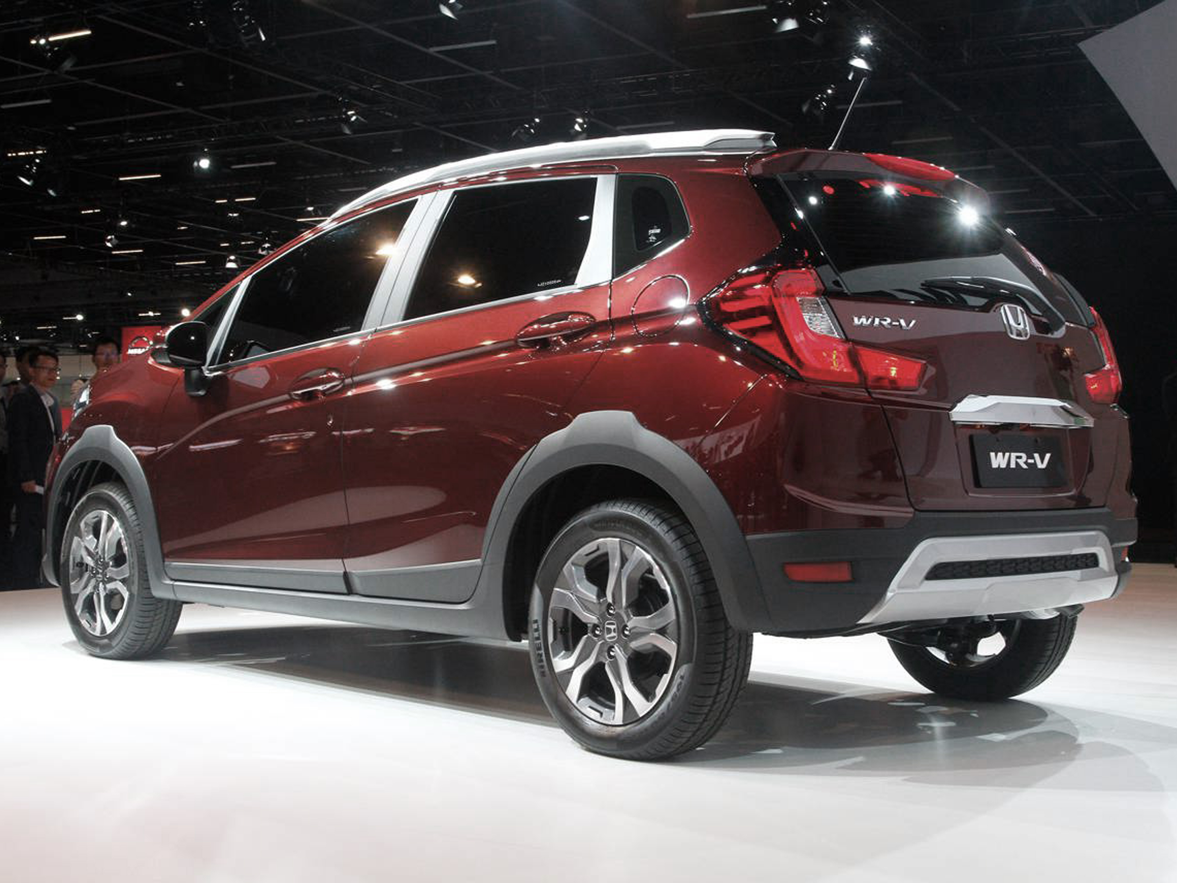 2017 Honda WR-V rear view.